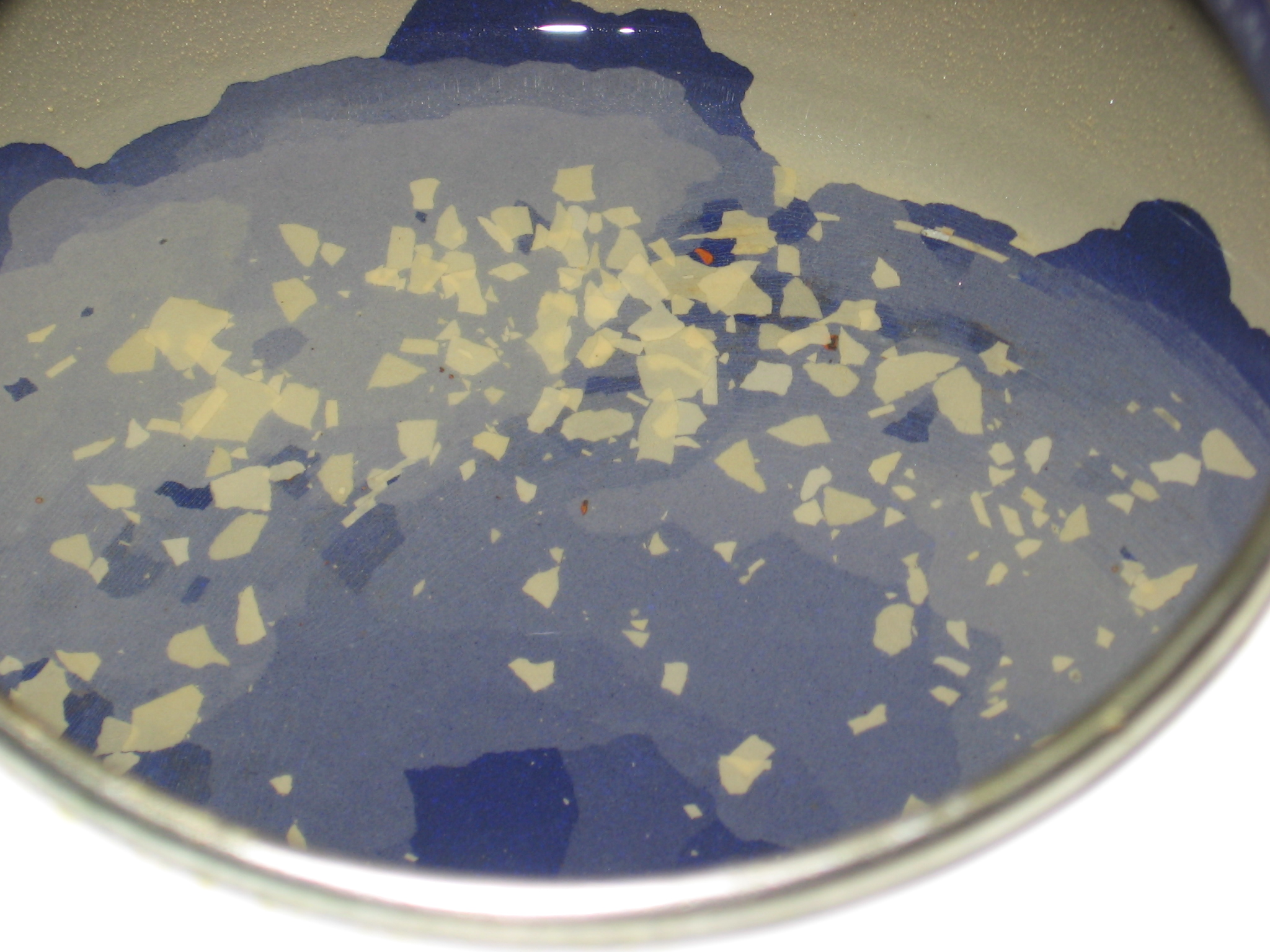 limestone in water kettle